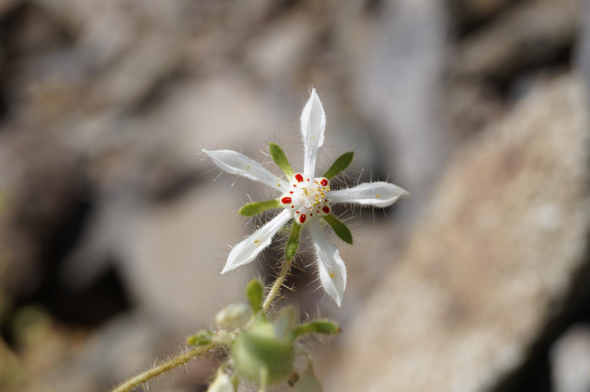 Loasa floribunda